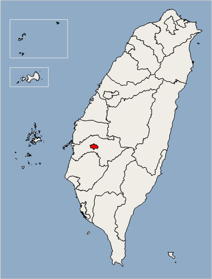 Location of Chiayi City in Taiwan